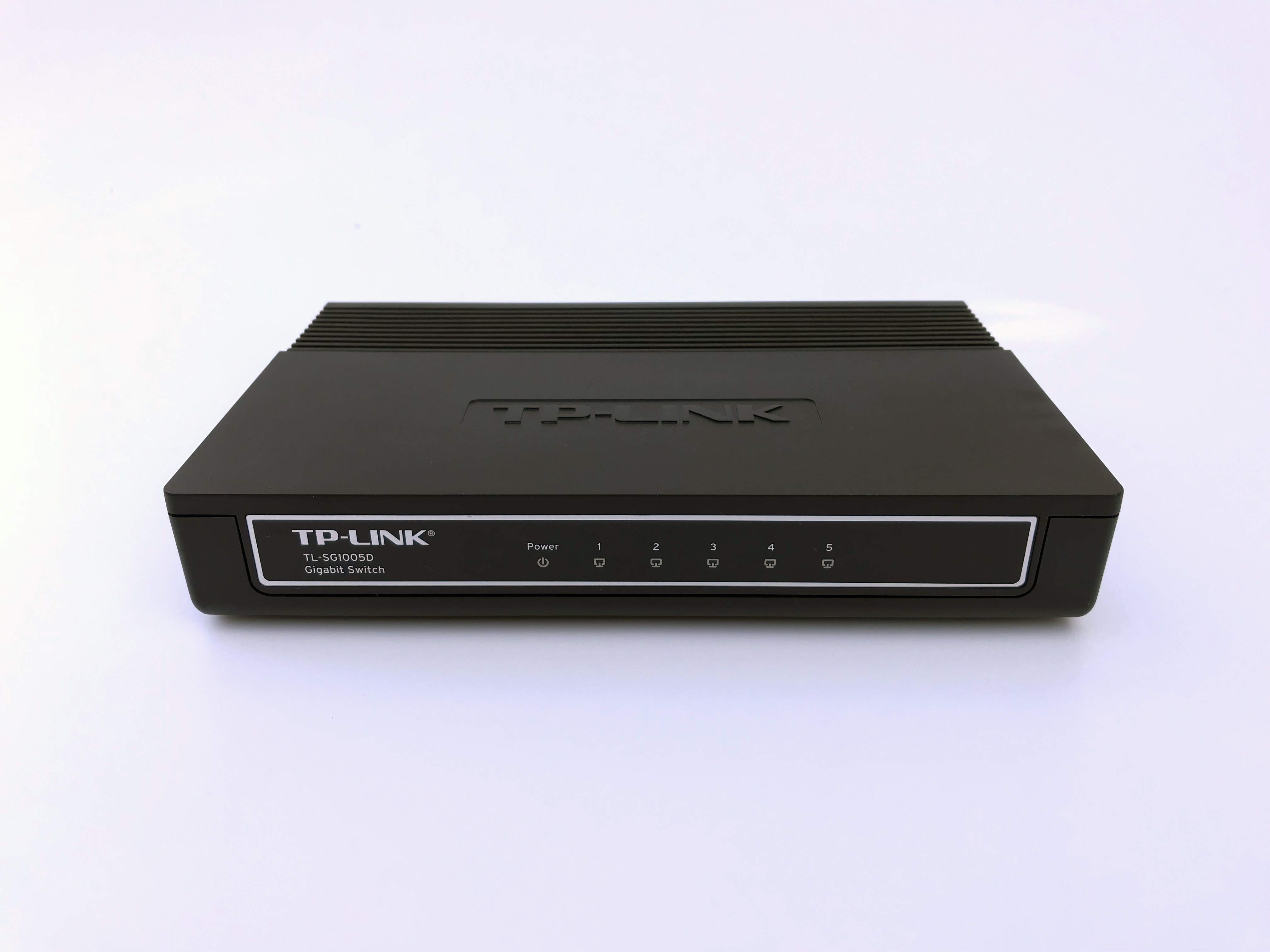 5 Port Gigabit Netzwerk-Switch TL-SG1005D